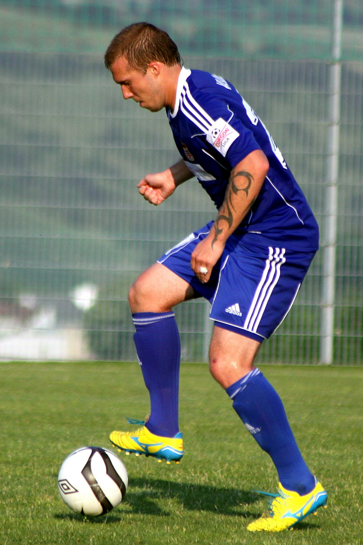 Friendly match SV Mattersburg vs FK Dukla Banská Bystrica (2:2) at 2013-06-21 in Mattersburg. – The photo shows Patrik Vajda (FK Dukla Banská Bystrica).